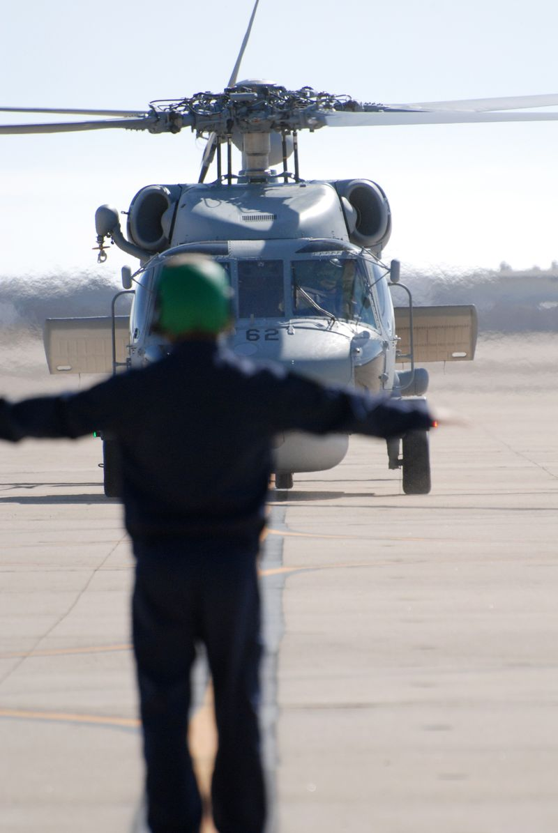 NAVAL AIR STATION, NORTH ISLAND (Sept. 24, 2009) — A member of the Republic of Singapore Navy guides a Singapore S-70B Seahawk helicopter on the flight line of Naval Air Station, North Island. The aircraft is participating in the exercise Peace Triton, a shipboard integration phase of bilateral training given by the U.S. Navy to the Republic of Singapore Air Force and Republic of Singapore Navy. U.S. Navy Photo by Mass Communication Specialist 1st Class Ryan Valverde.